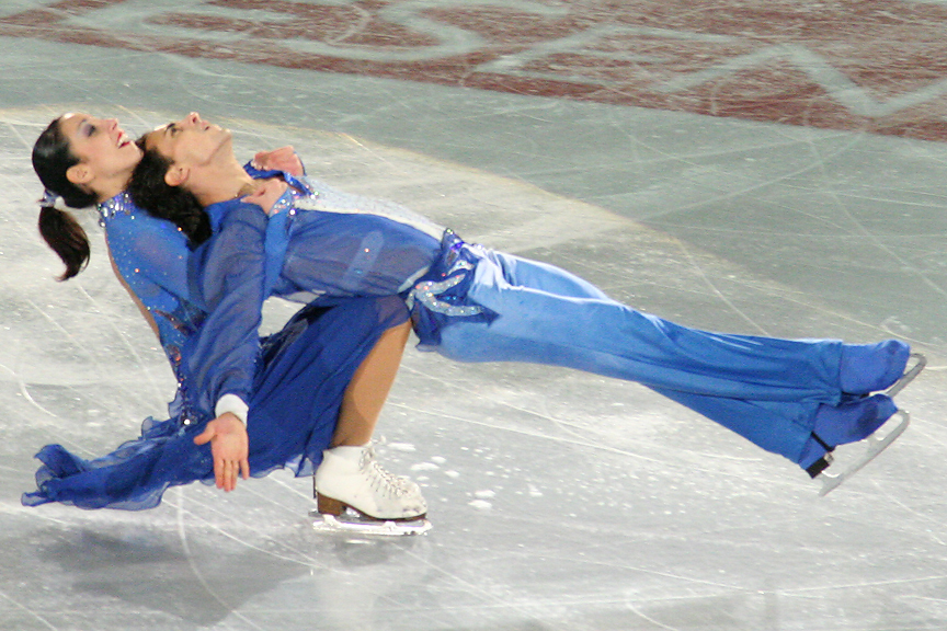 Federica Faiella & Massimo Scali perform a reverse (or, genderbending) lift at the 2006 Skate Canada.